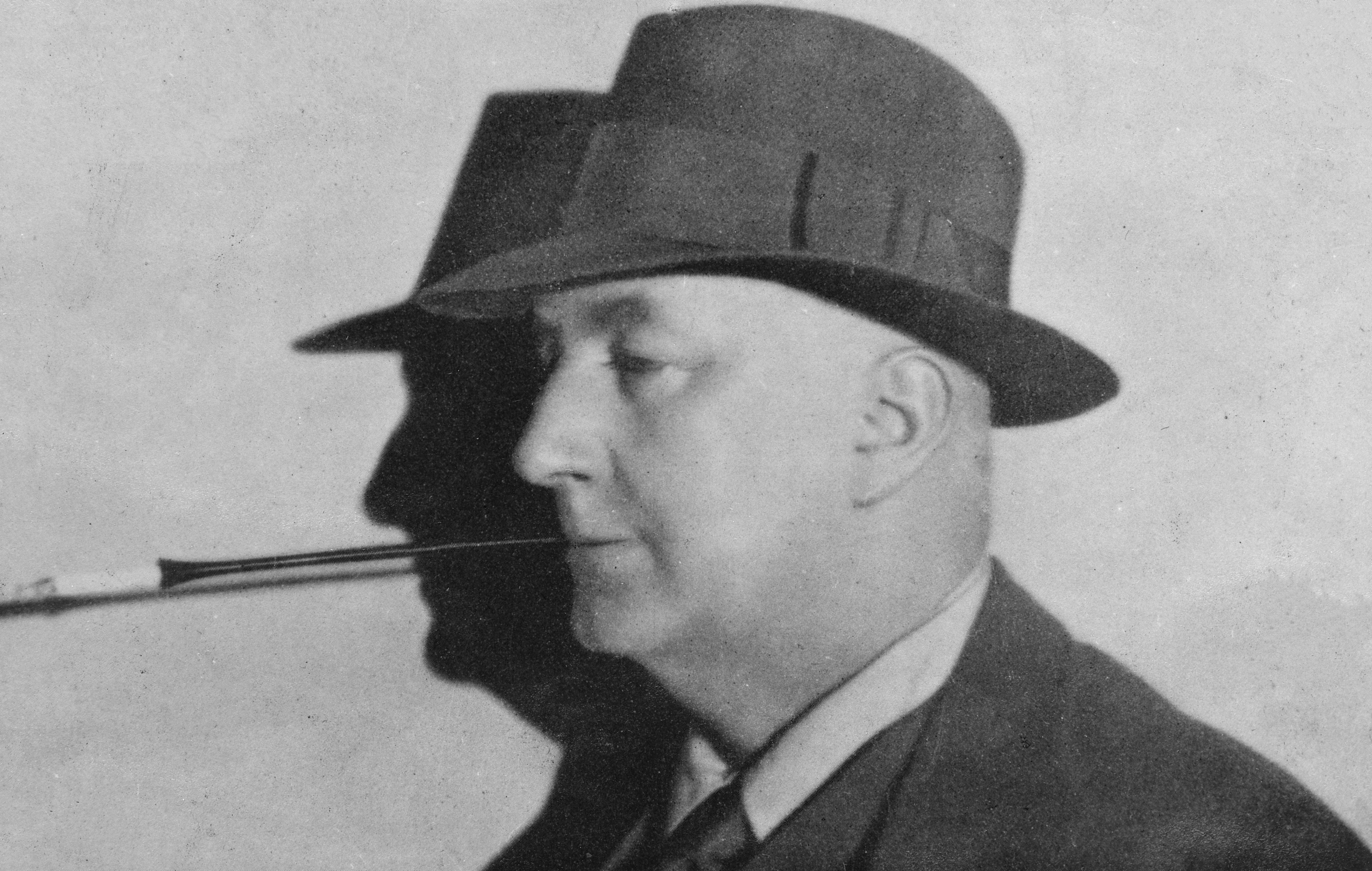 Photographs of Edgar Wallace as an officer in the Medical Staff Corps (c.1898) and as war correspondent to the Daily Mail, 1902.